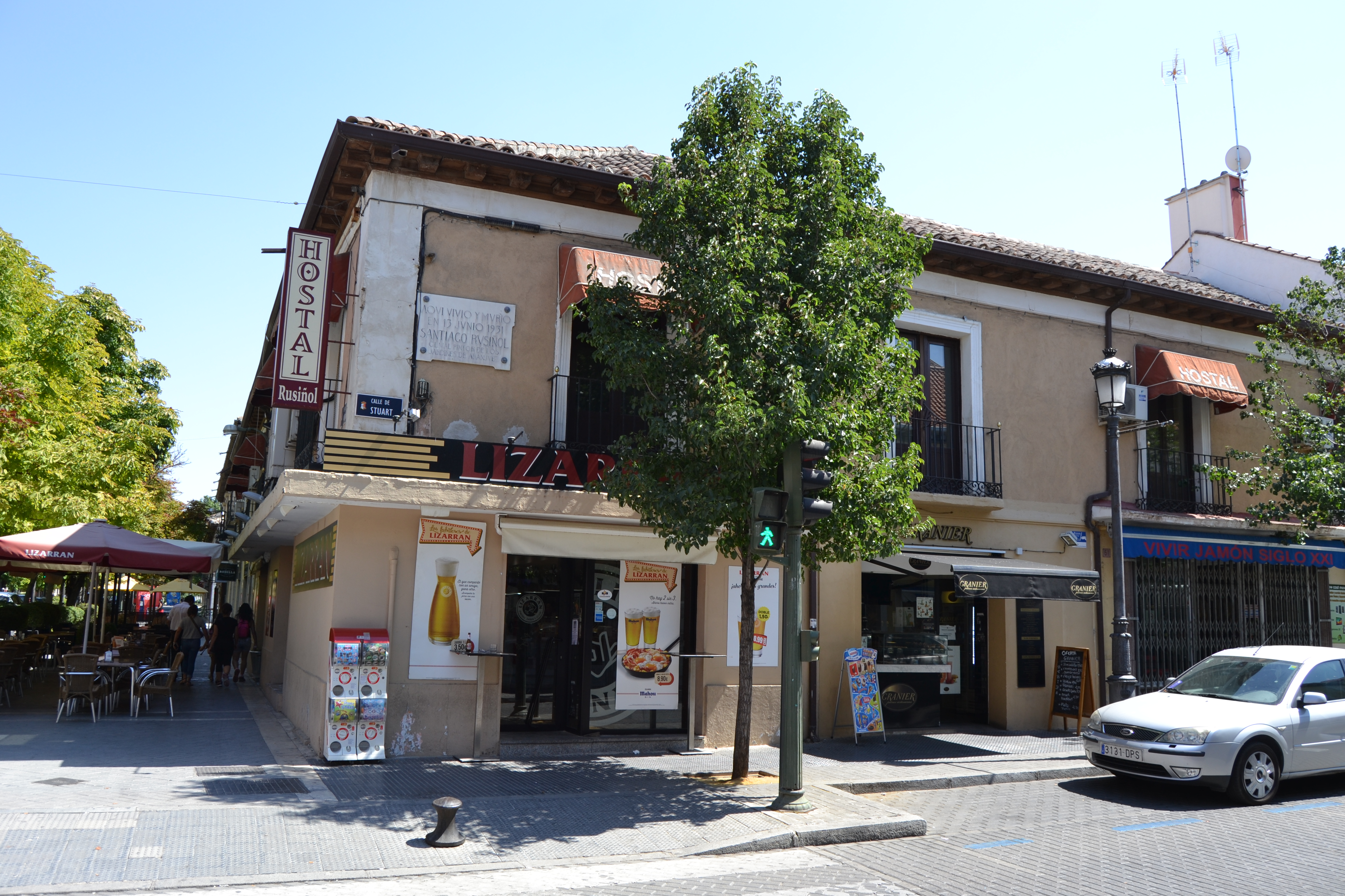 Streets in Aranjuez, Spain